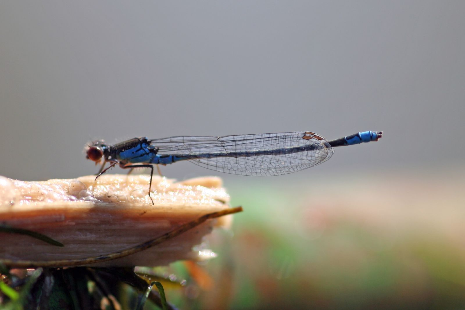 Erythromma viridulum is a relative new-comer to England and is spreading rapidly northwards. The key identification feature to distinguish it from the common Red-eyed, E najas, is the blue on the underside of segment eight.